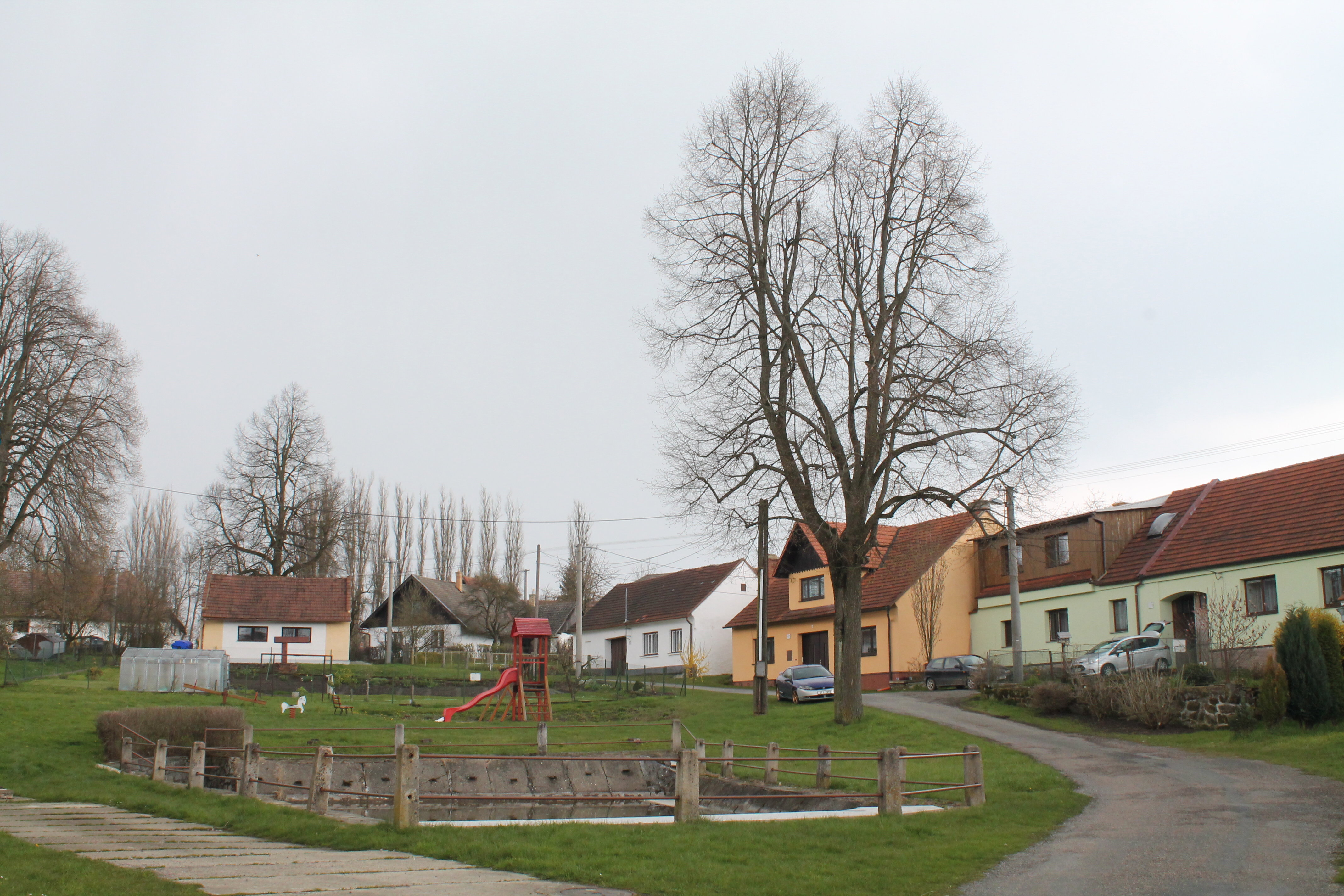 Ústup, Blansko District, Czech Republic This photograph was taken during a group photography field trip by Brno Wikipedians: 2017-04-29.